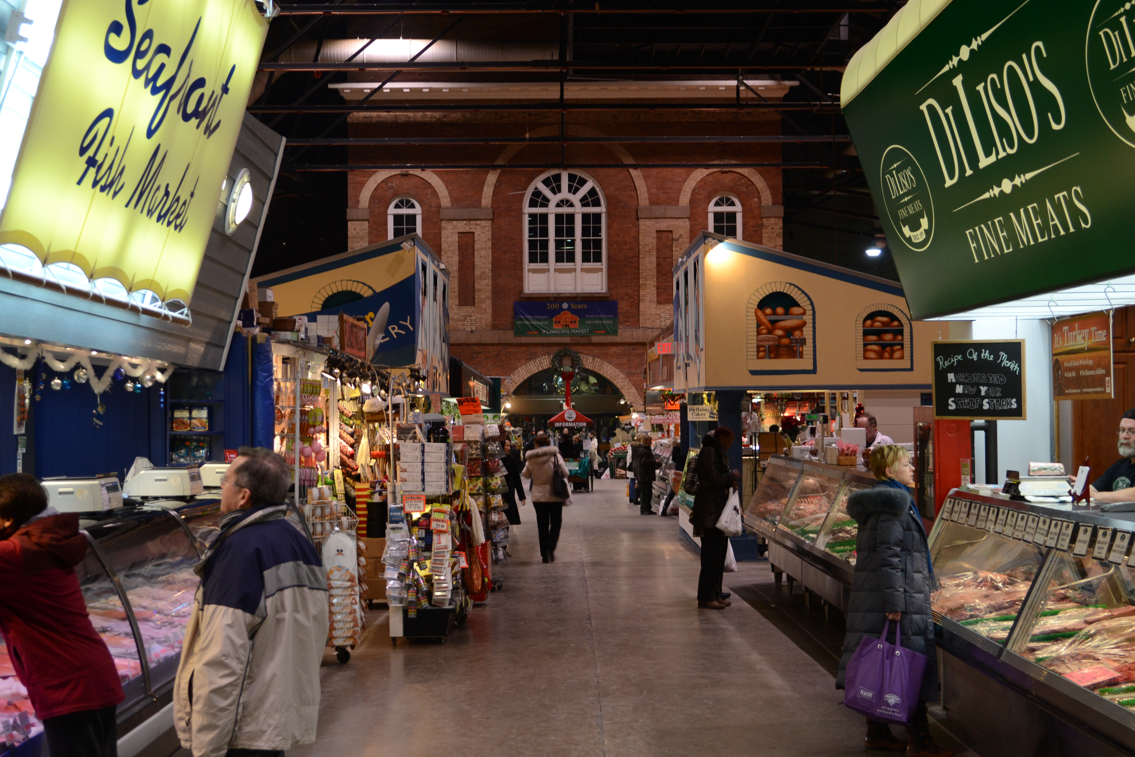 St. Lawrence Market